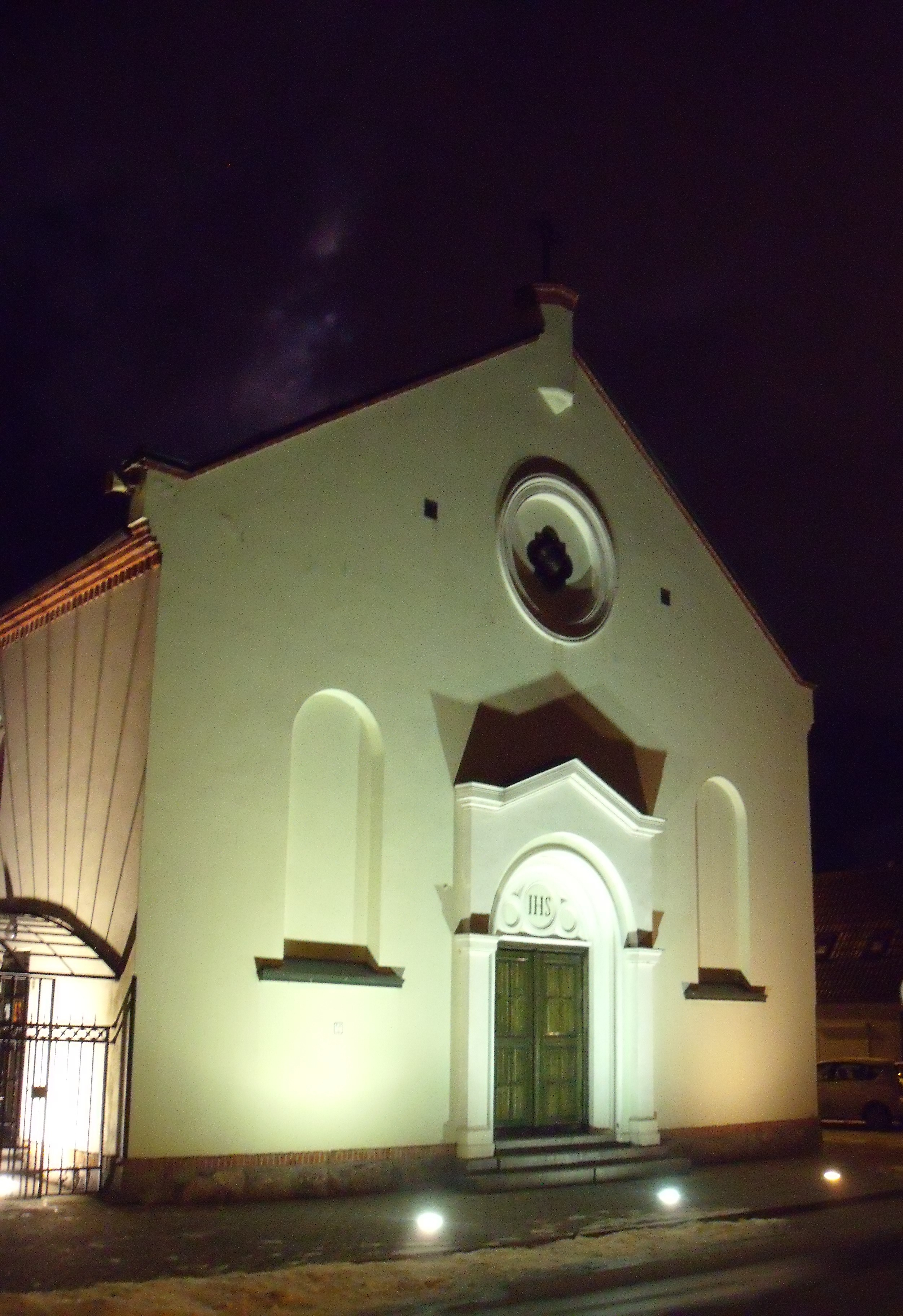 Church of Christ the King (Kristaus Karaliaus bažnyčia) in Klaipeda, Lithuania